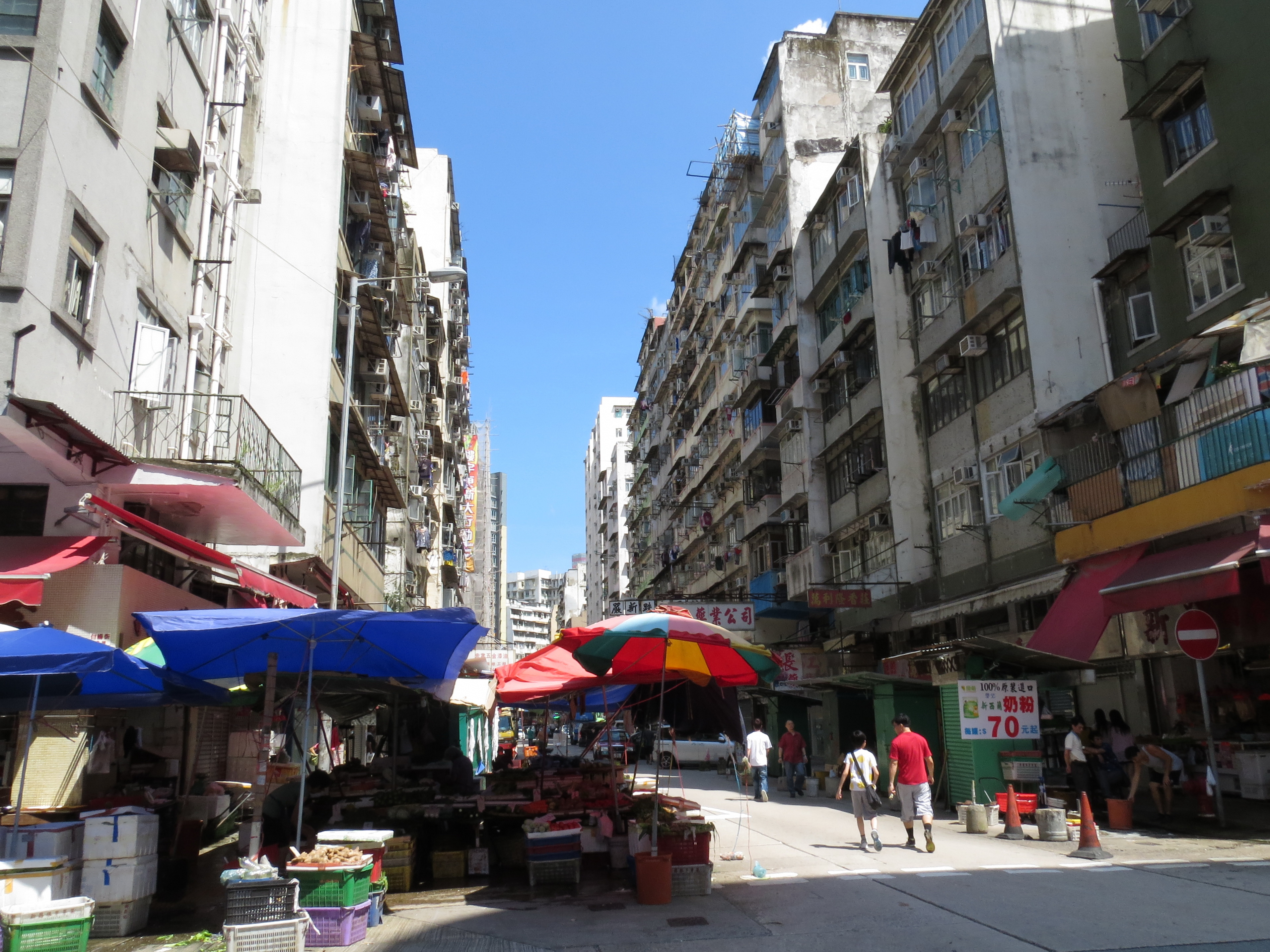 Ki Lung Street, Kowloon, Hong Kong.